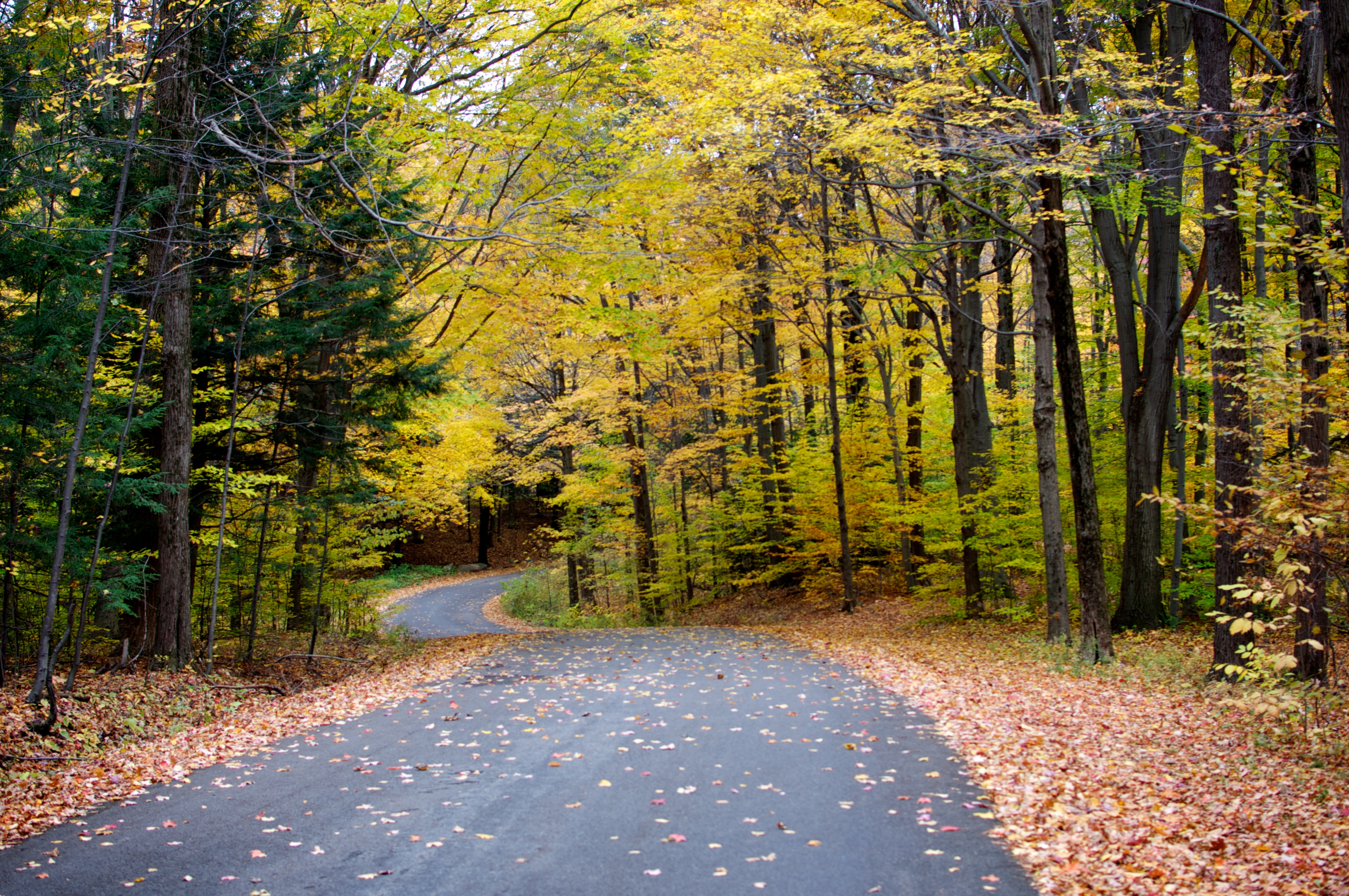 Fall scene in Chestnut Ridge Park, October 2010